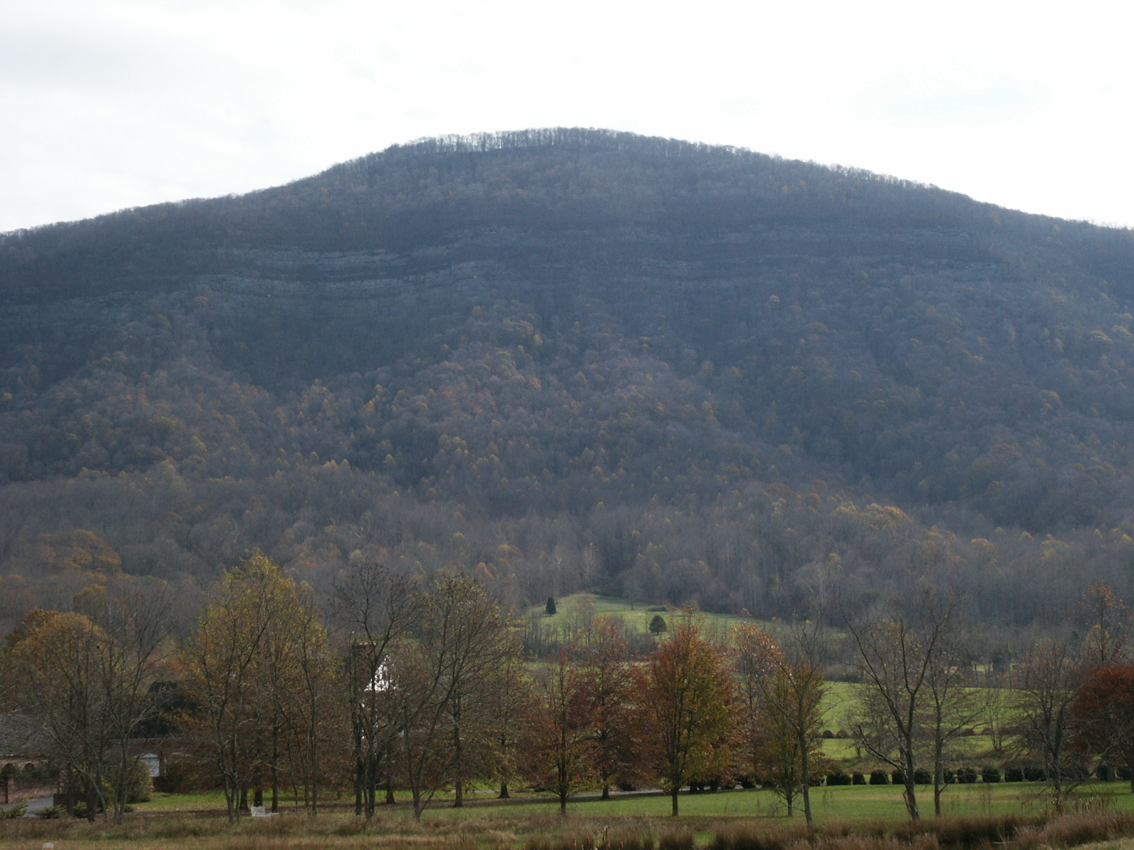 Author: Kevin Estep. I took this photo in 2004.